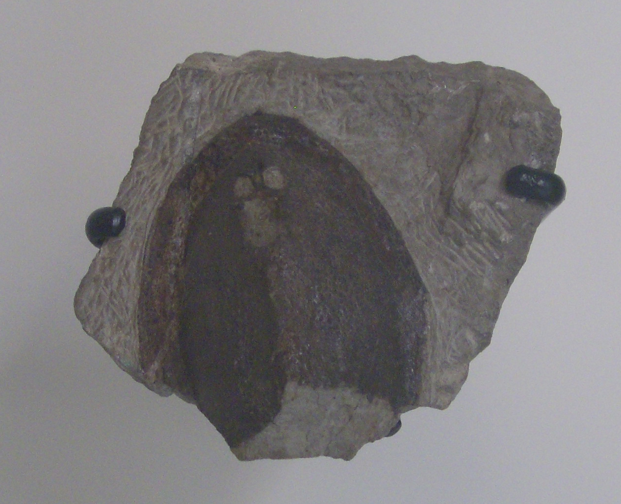 Fossil of Dartmuthia gemmifera (specimen AMNH 8465) in the American Museum of Natural History.